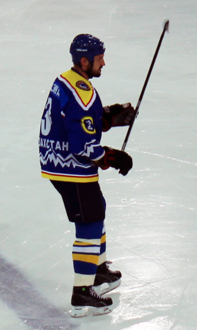 Andrei Zyuzin is an ice hockey player playing for HC Almaty.